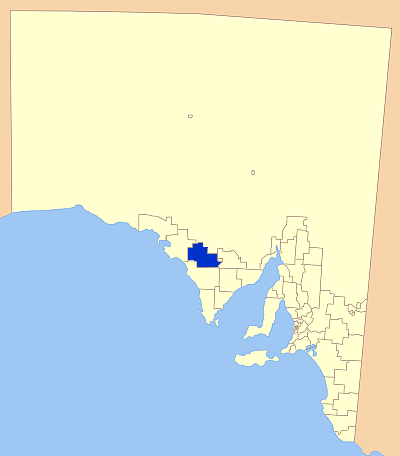 Modification of Astrokey44's original map found here: File:SA_LGA_blank.png Position of Coober pedy LGA